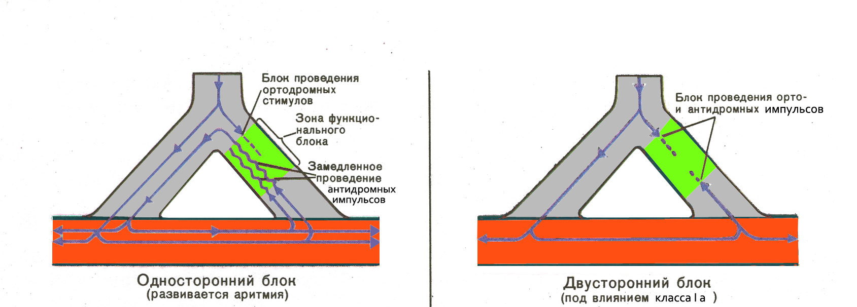 Re-entry block